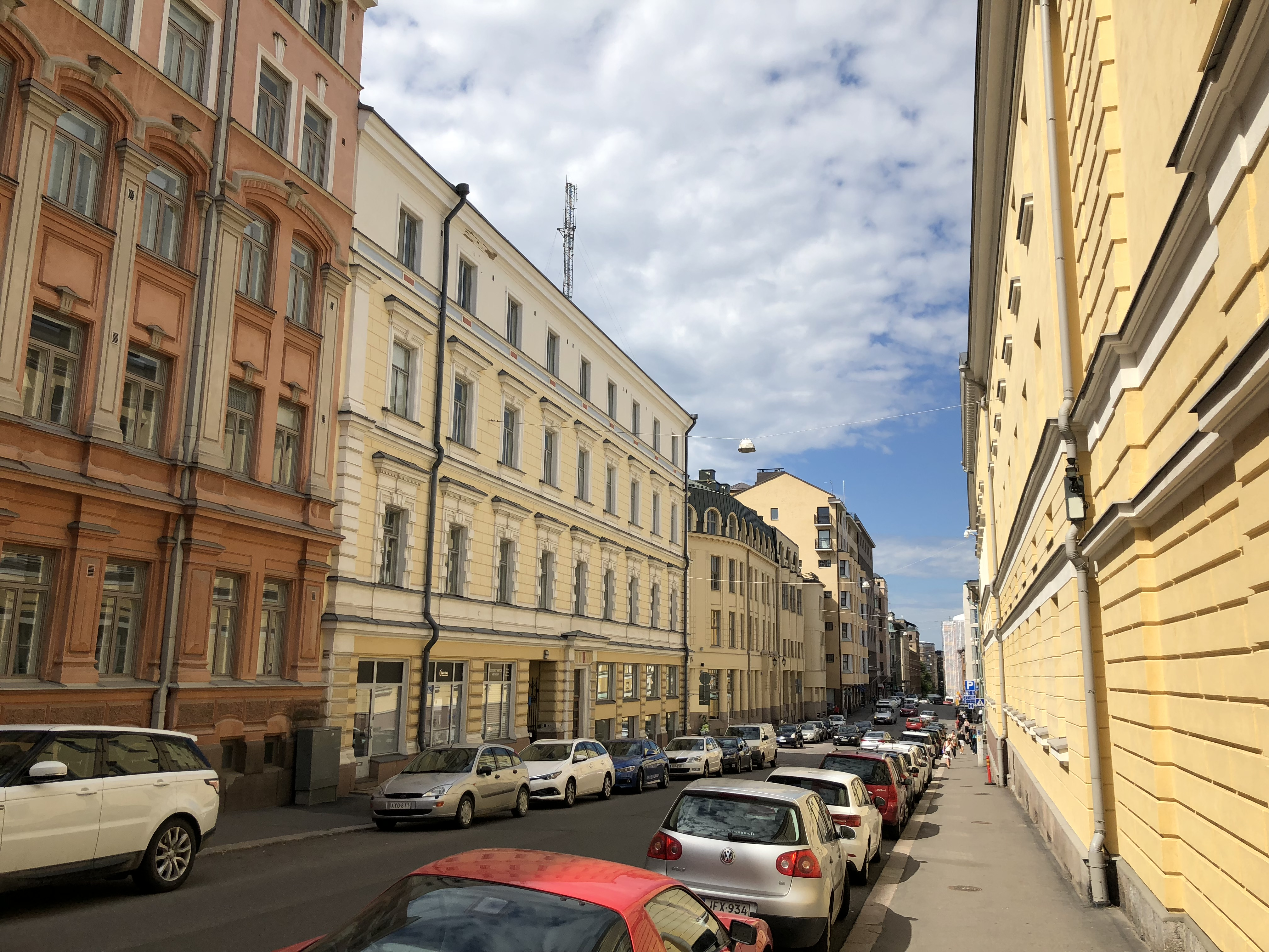 Kasarmikatu 26-28 in Helsinki, Finland June 2018